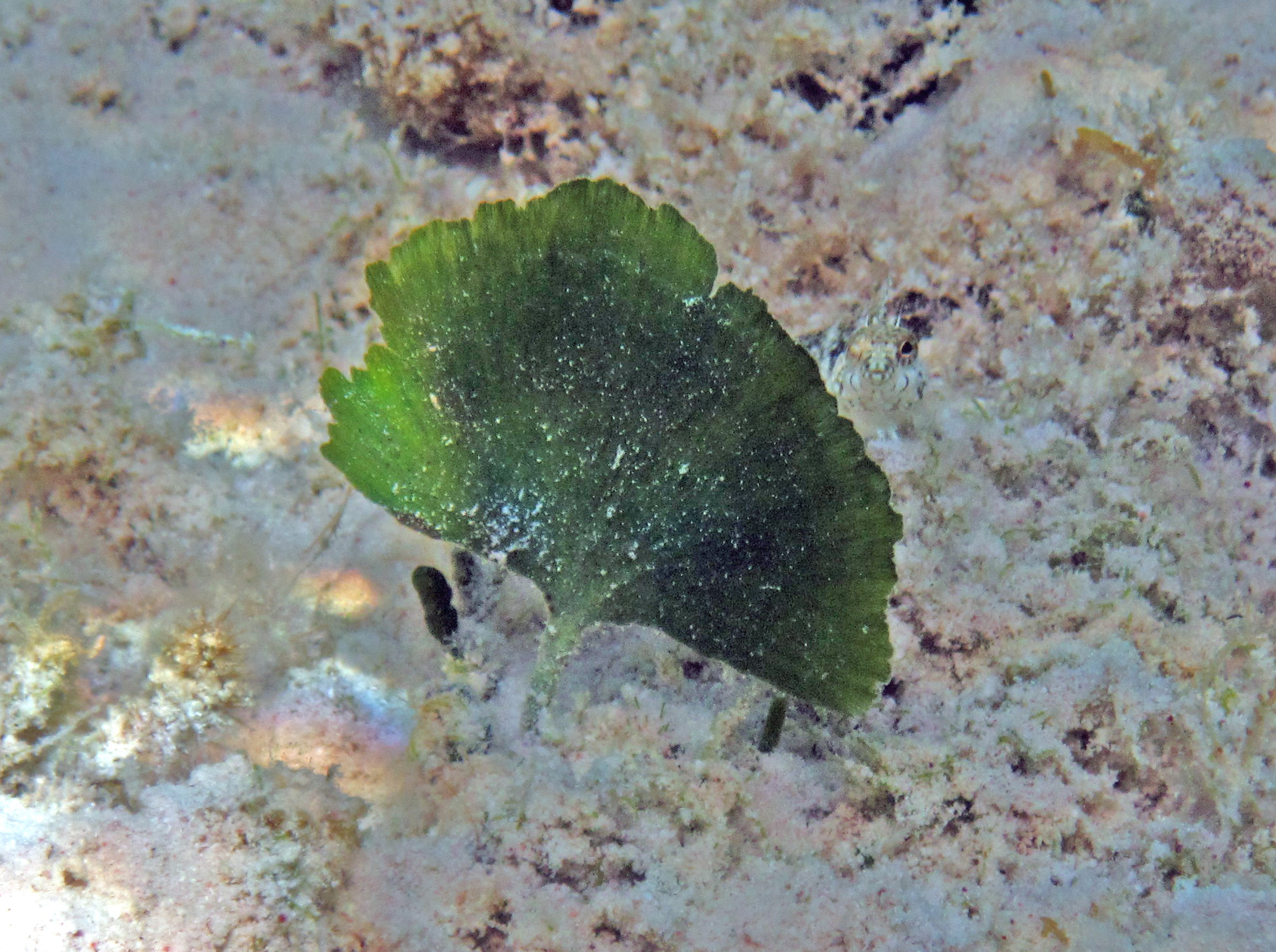 Udotea flabellum (Ellis & Solander, 1786) - mermaid's fan alga on shallow, aragonitic sandy seafloor. Udotea is a calcareous green alga - the fan-shaped blade has tiny particles of aragonite (CaCO3 - calcium carbonate). After the alga dies and the soft parts decay away, the aragonitic portions become clay- & silt-sized seafloor sediments. A significant percentage of shallow seafloor and shoreline sediments in the Bahamas is from calcareous algae. Many carbonate petrologists suggest that ancient fine-grained limestones (micritic limestones; micrites) are diagenetically altered deposits of calcareous green algae. Classification: Chlorophyta, Caulerpales, Halimedaceae Locality: shallow seafloor just west of North Point Peninsula, southeastern Graham's Harbour, northeastern San Salvador Island, eastern Bahamas